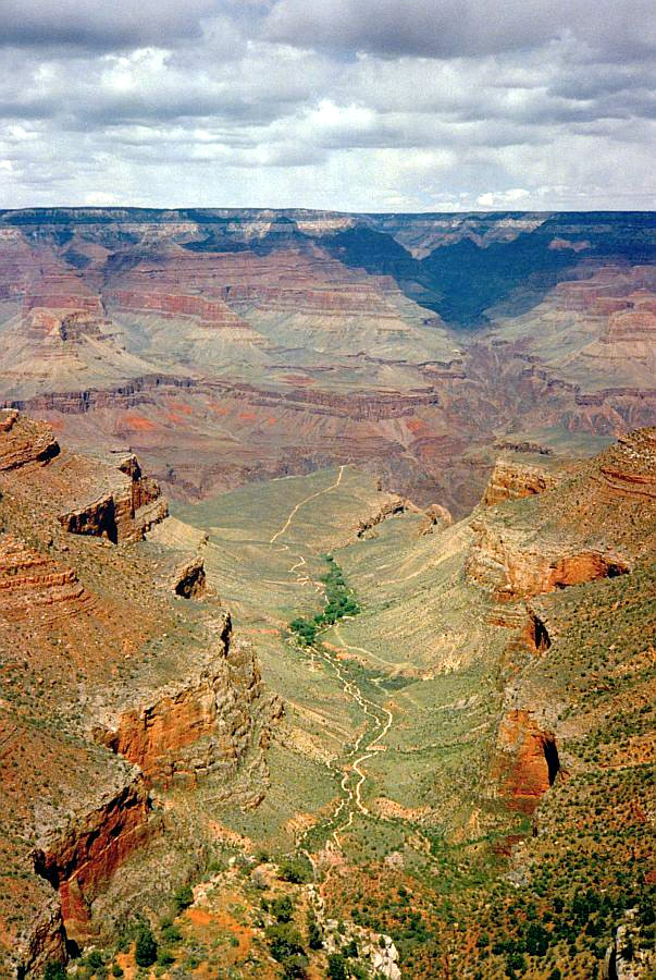 Looking down Bright Angel trail to the Grand Canyon. The green area is Indian Gardens and the trail continues to Phantom Ranch at the river where a suspension bridge allows access to the North Rim.[1]